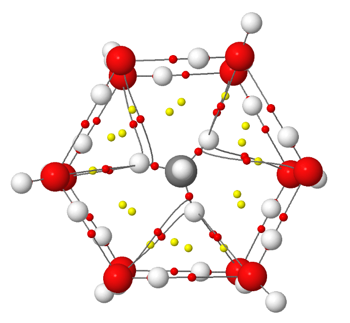 Methane interacting with water molecules.